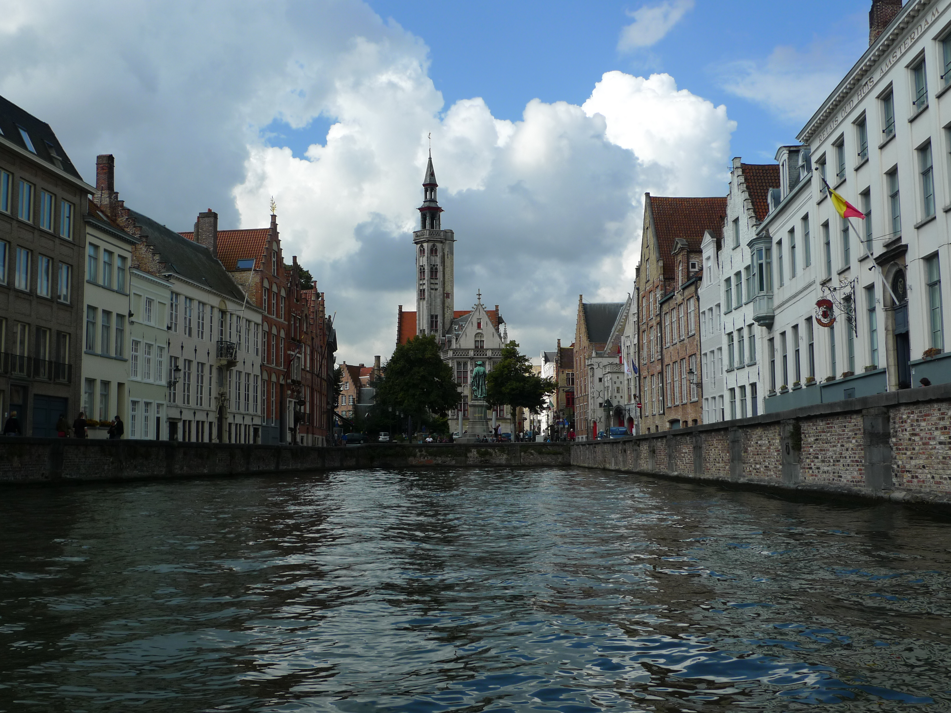 Looking toward Jan van Eyckplein from a canal boat in Bruges, Belgium.